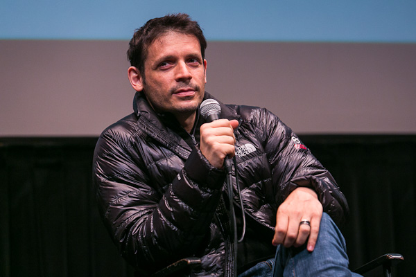 Argentine Director Daniel Burman at Lincoln Center's Walter Reade Theater on the 23rd of January 2013 for the screening of his film 'La suerte en tus manos' or 'All In'. Photo credit: Sachyn Mital